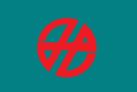 Flag of Miharu Fukushima